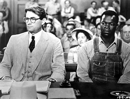 Promotional still from the film To Kill a Mockingbird (1962) with Gregory Peck and Brock Peters.